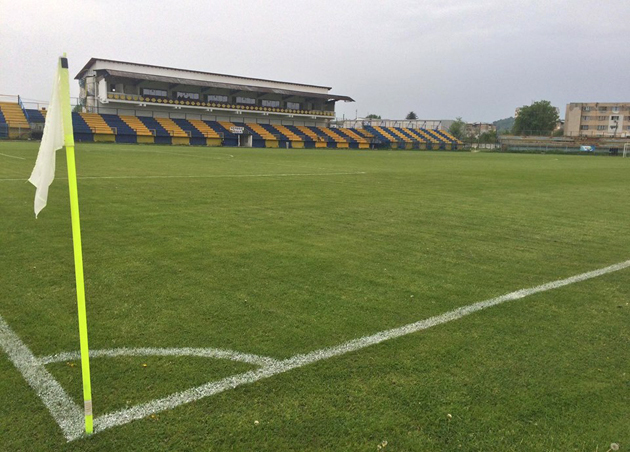 Flacara Moreni Stadium